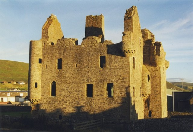 Scalloway Castle